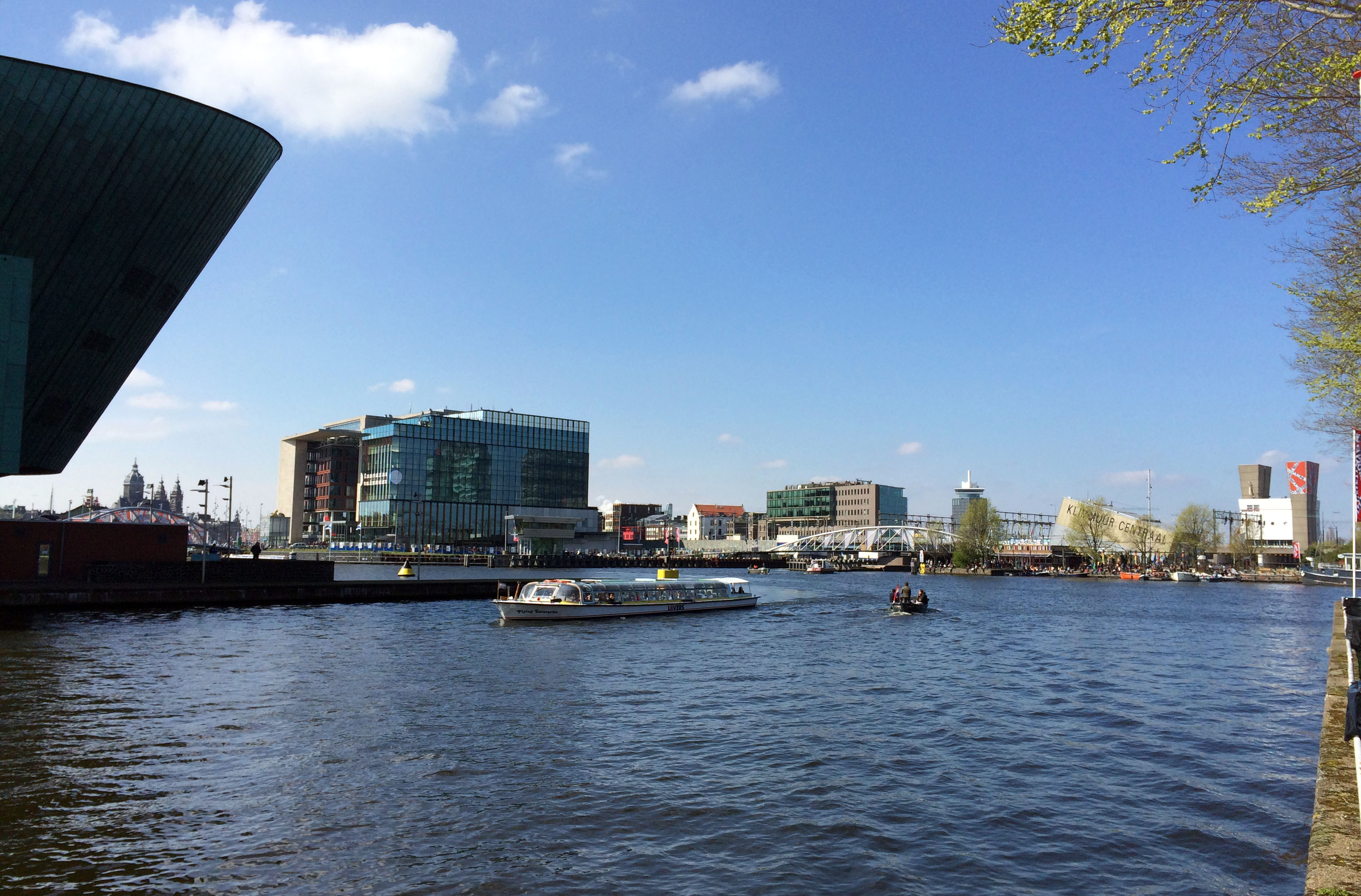 View of the Oosterdok in Amsterdam with NEMO, OBA, Music school.